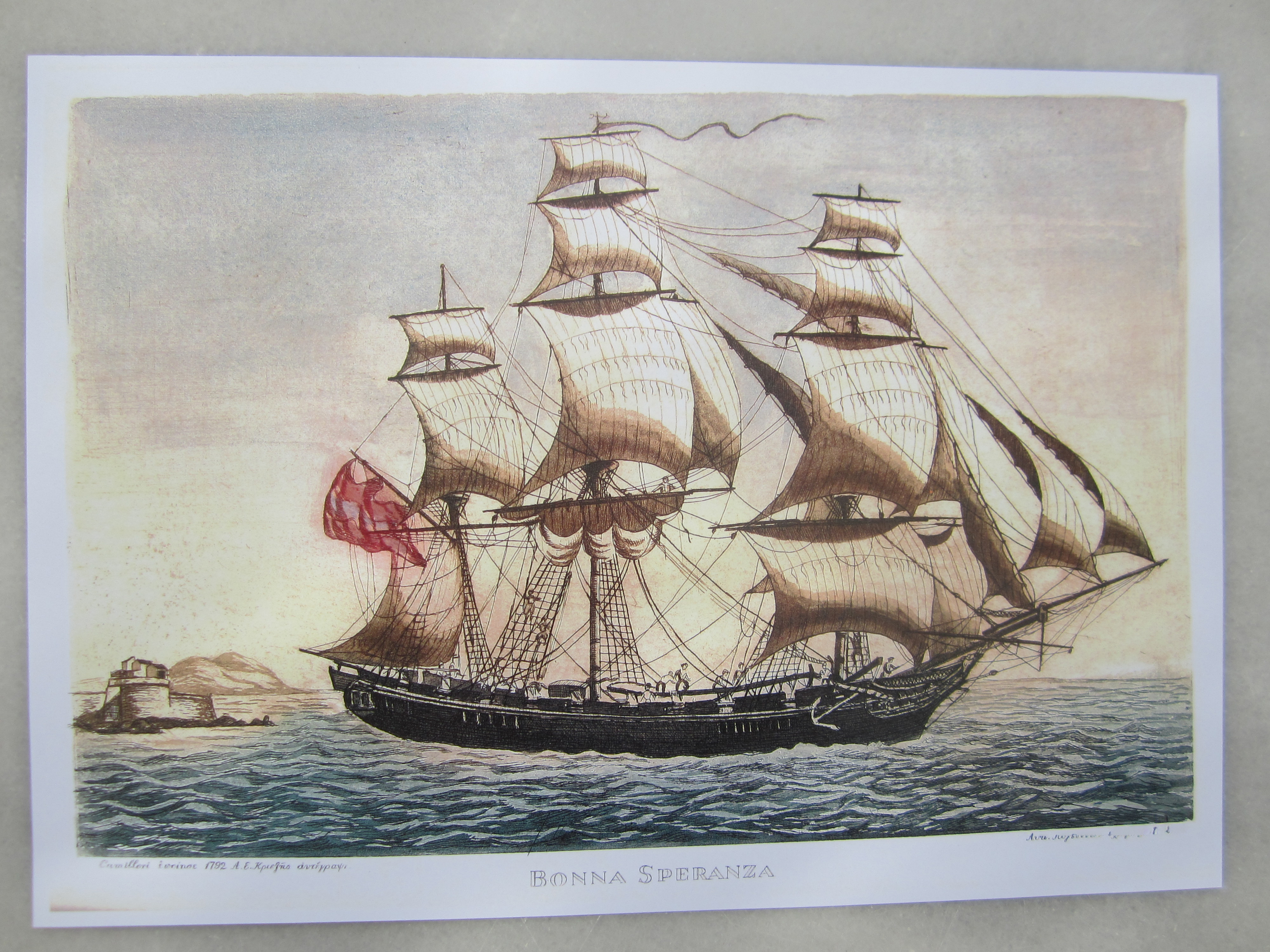 ss "Bonna Speranza", paintor Camillery (1792), painting copy A.E.Kriezis, engraving Lykourgos Kogevinas (1897-1940) from album "Ships of Greek Revolution' (1938)